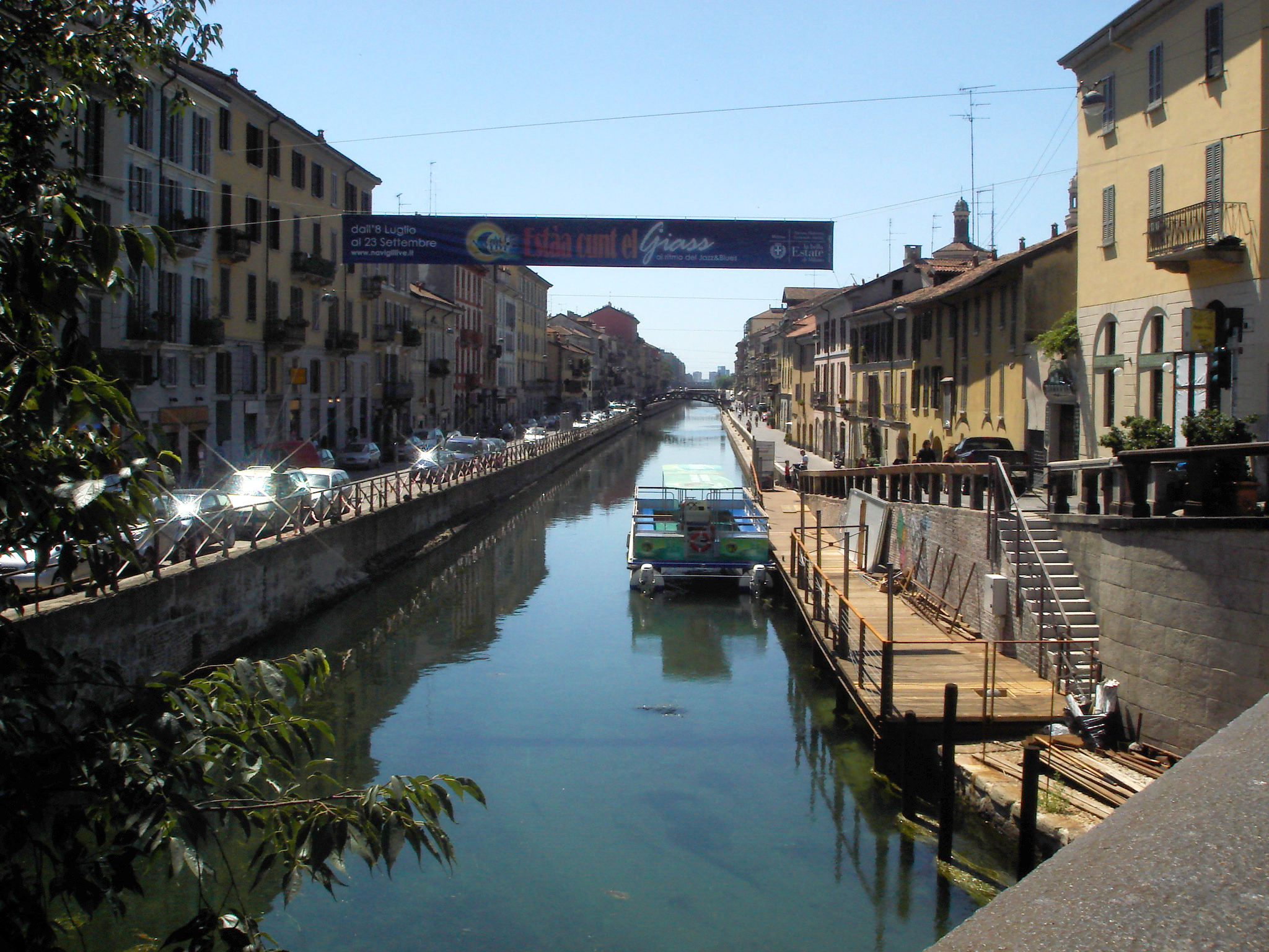 The "Naviglio Grande" (Grand canal) in Milan (Italy) entering the "Darsena" (former harbour). Picture by Giovanni Dall'Orto, June 20 2007.